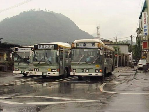 Bus stop of Fujikyu Yamanashi Bus in front of Otsuki Station